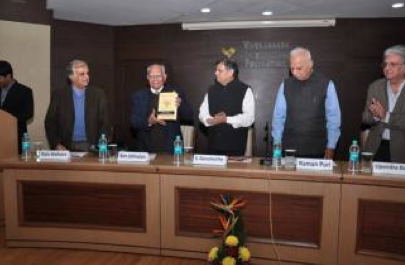 Delhi launch of Breaking India book Feb 9, 2011